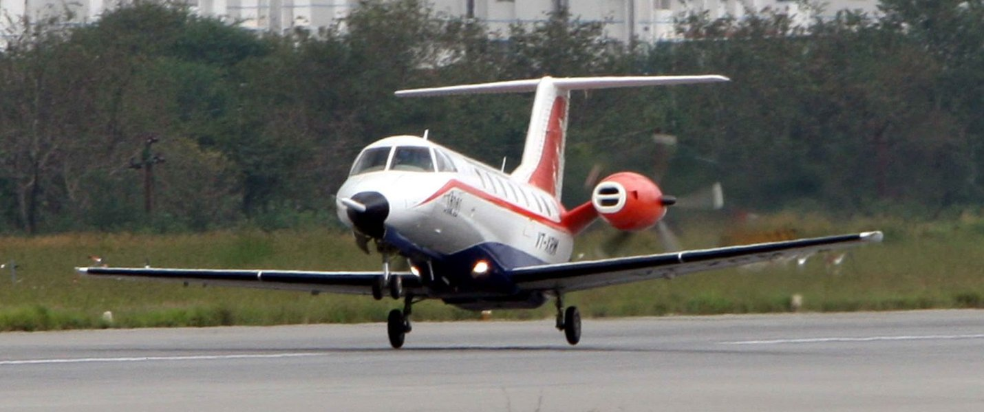 SARAS Transport AC gets ready for take off during HAL Review by Sh AK Antony on 25-10-08 at Bangalore